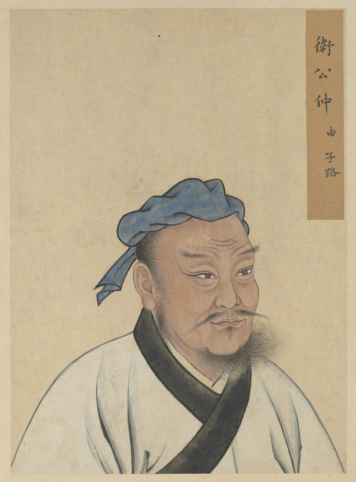 This depicts Zhong You (仲由), styled Zilu (子路) and Jilu (季路).